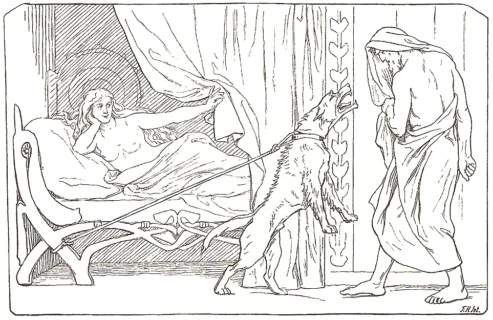 Billingr's girl (whose name is not provided) watches on while Odin encounters the bitch tied to her bedpost. Inspired by Odin's description found in Hávamál.